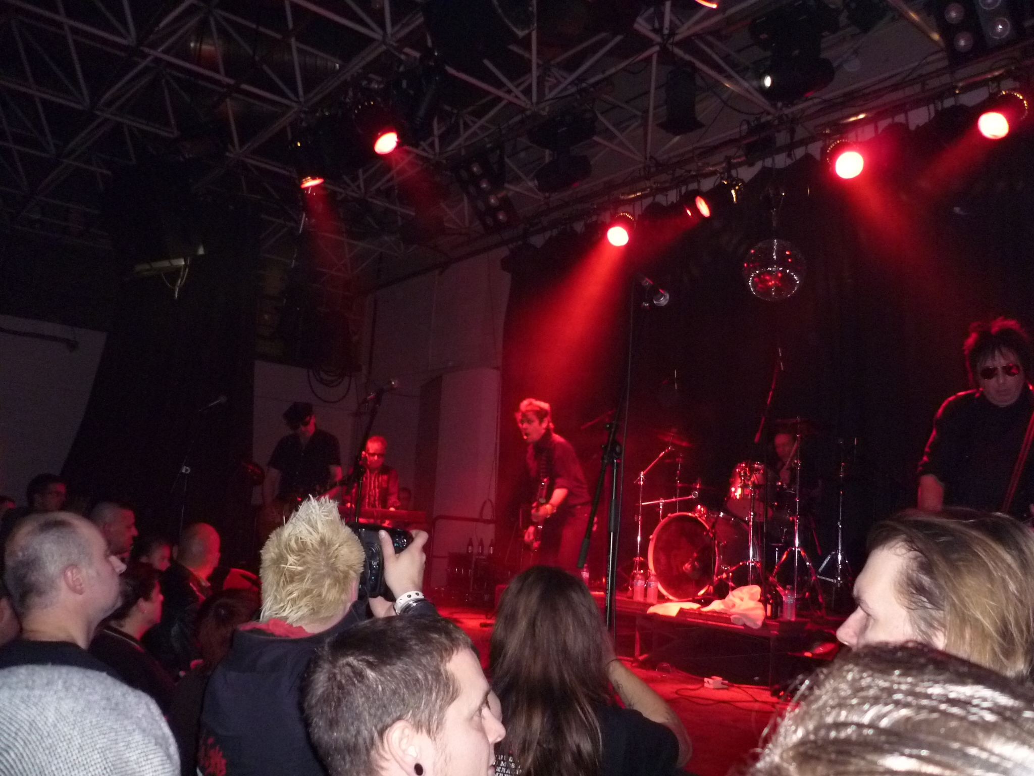 The Boys live in Düsseldorf (Zakk)